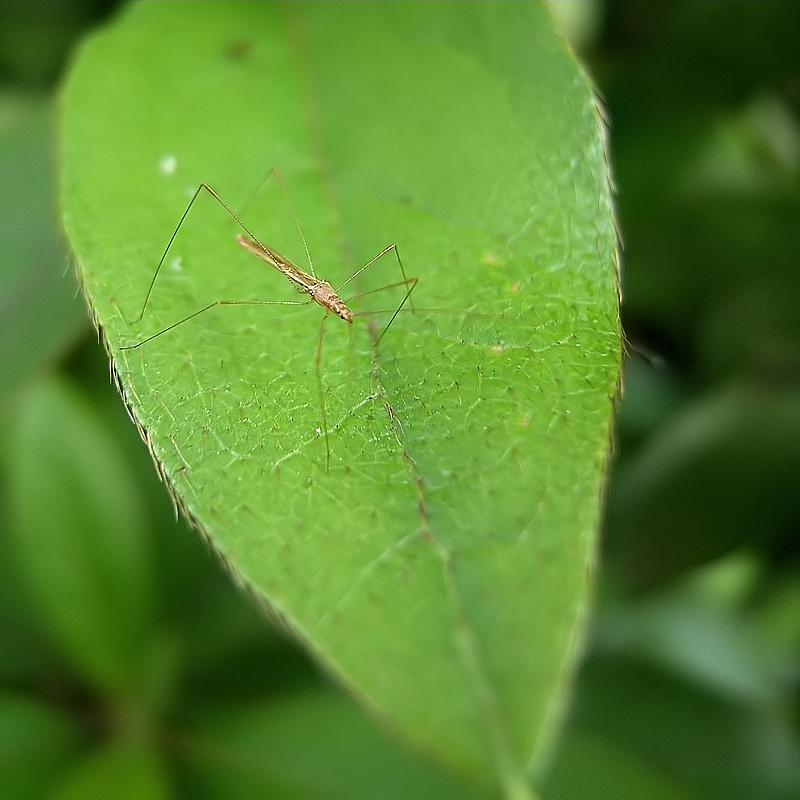 イトカメムシ Yemma exilis Location 神戸市西区 Copyright OpenCage